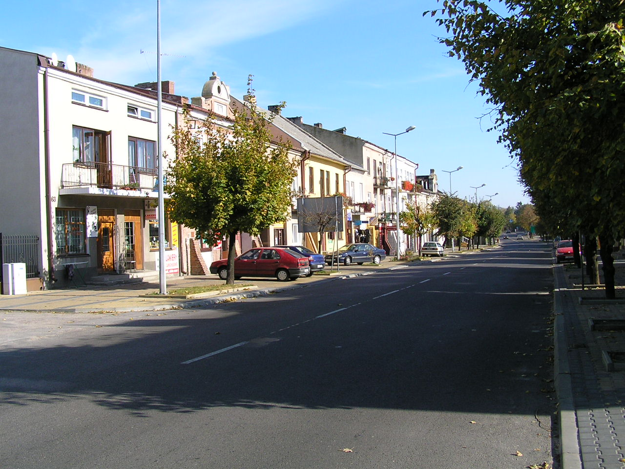 autor: Yarek shalom 19:54, 19 October 2006 (UTC)yarek shalom